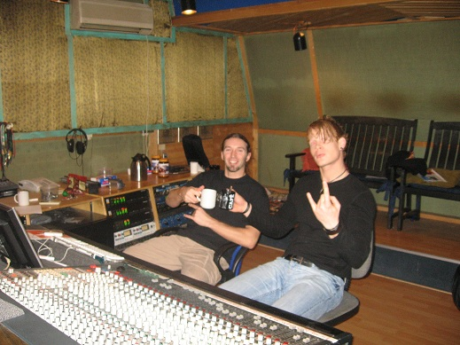 Tom and Bart at Excess Studios Rotterdam